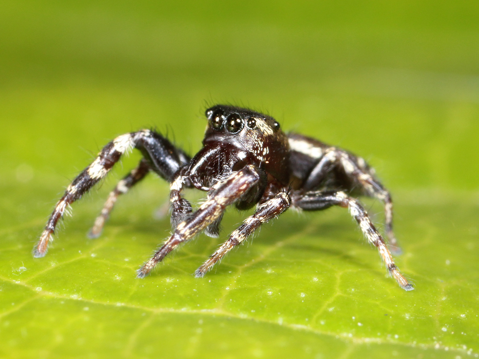 Adult male Pelegrina aeneola jumping spider collected in Yosemite Valley, Mariposa County, California.